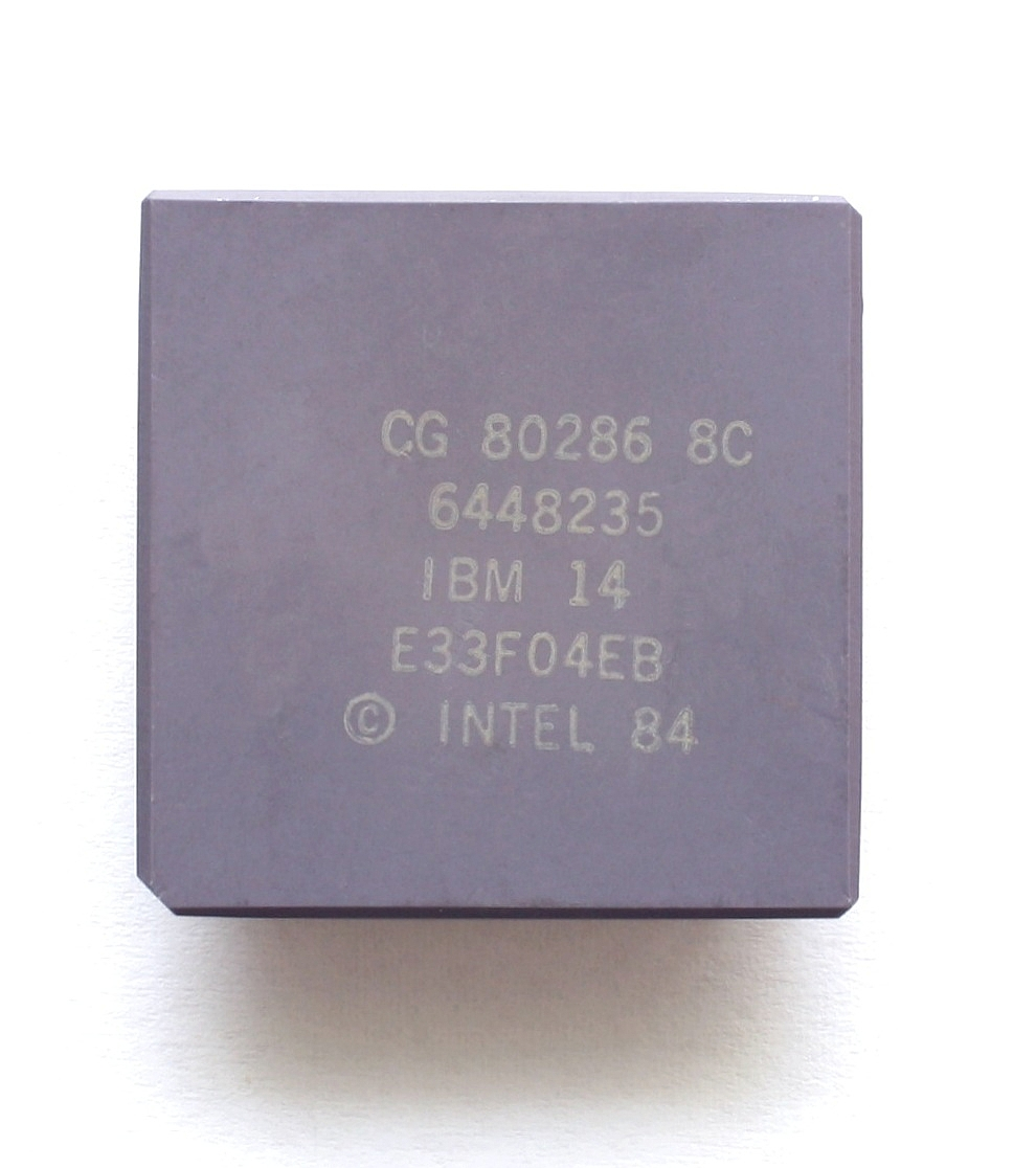 CPU IBM 80286